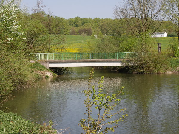 Bridge over the Neuenheerse Lake in NRW, Germany. Photo March 2011.